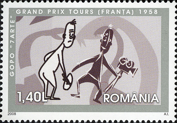 Stamps of Romania, 2008